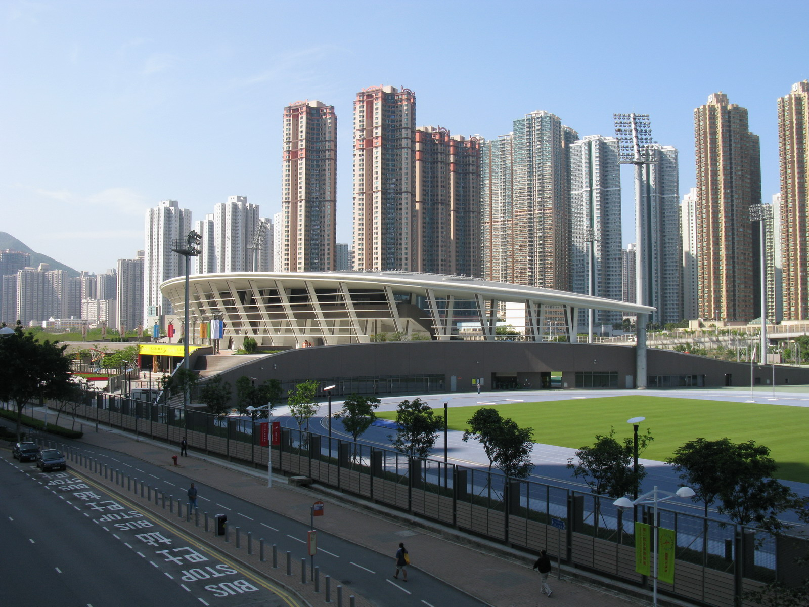 Tseung Kwan O Sports Ground